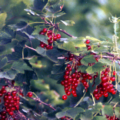 Ribes rubrum